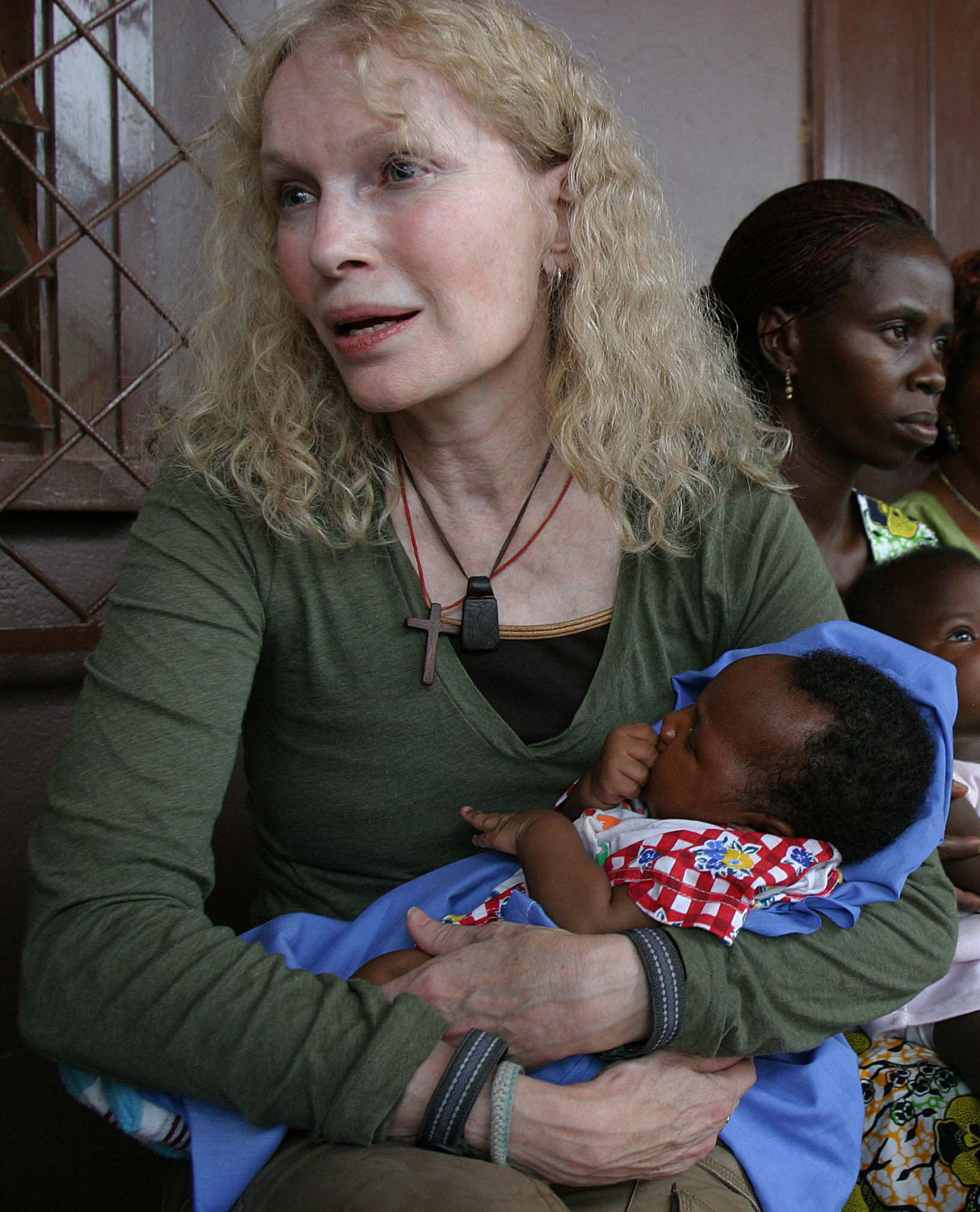 Internationally acclaimed actress and UNICEF Goodwill Ambassador Mia Farrow carrys a three-month baby to be vaccinated against the polio virus at the Begoua’s health post, Bangui’s capital.